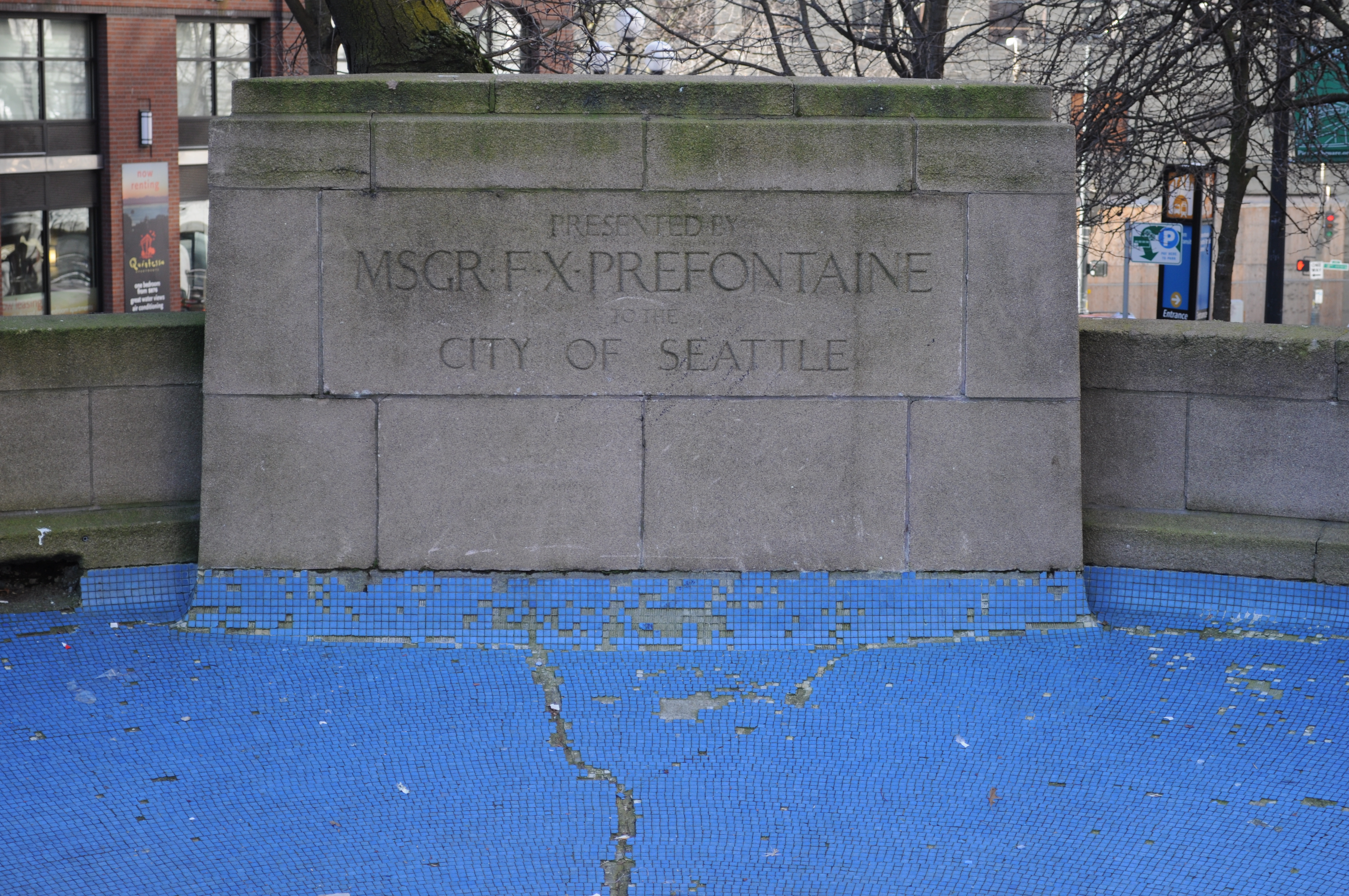 Prefontaine Fountain (detail), Third & Yesler, Seattle, Washington, USA.